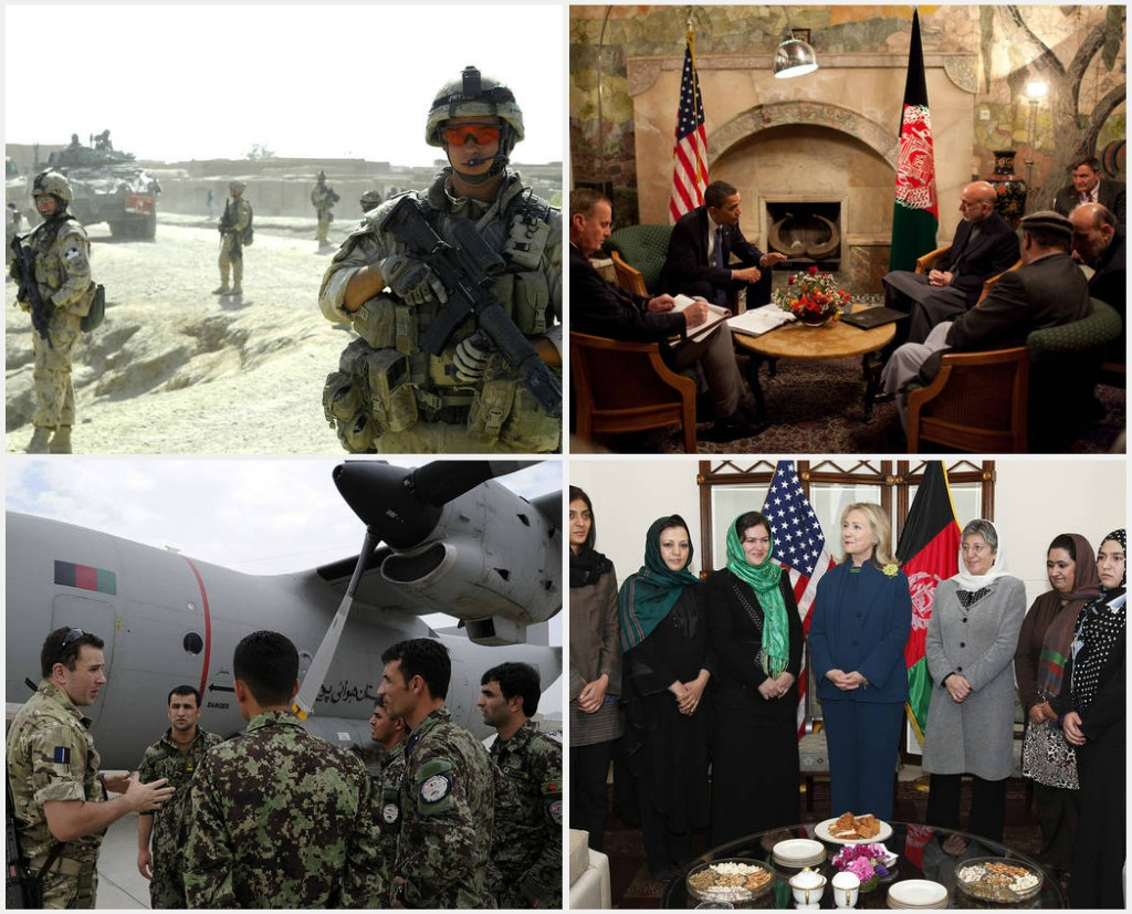 Collage of images displaying the following, from left to right: 1. KANADAHAR, Afghanistan – Canadian Master Bombardier Clint Godsoe, Kandahar Provincial Reconstruction Team (PRT) patrols Kandahar August 26, 2008 on the way to deliver donated school supplies to a local school. The Kandahar PRT has worked on many construction projects such as schools and government facilities to assist the Afghan government improve the lives of residents (Photo by Staff Sgt. Jeffrey Duran). 2. President Barack Obama meets with Afghanistan President Hamid Karzai at the Presidential Palace in Kabul, Afghanistan, March 28, 2010. (Official White House photo by Pete Souza) 3. Royal Air Force Flight Lieutenant Luke Meldon explains the components of an Afghan Air Force C-27 Spartan to five Thunder Lab students July 24, 2011. The select students have been chosen to take aviation classes at the Lab based on their high English comprehension language exam scores. (U.S. Air Force photo by Staff Sgt. Matthew Smith) 4. U.S. Secretary of State Hillary Rodham Clinton standing with female Afghan politicians in Kabul, Afghanistan. (October 20, 2011, photo by S.K. Vemmer/Department of State